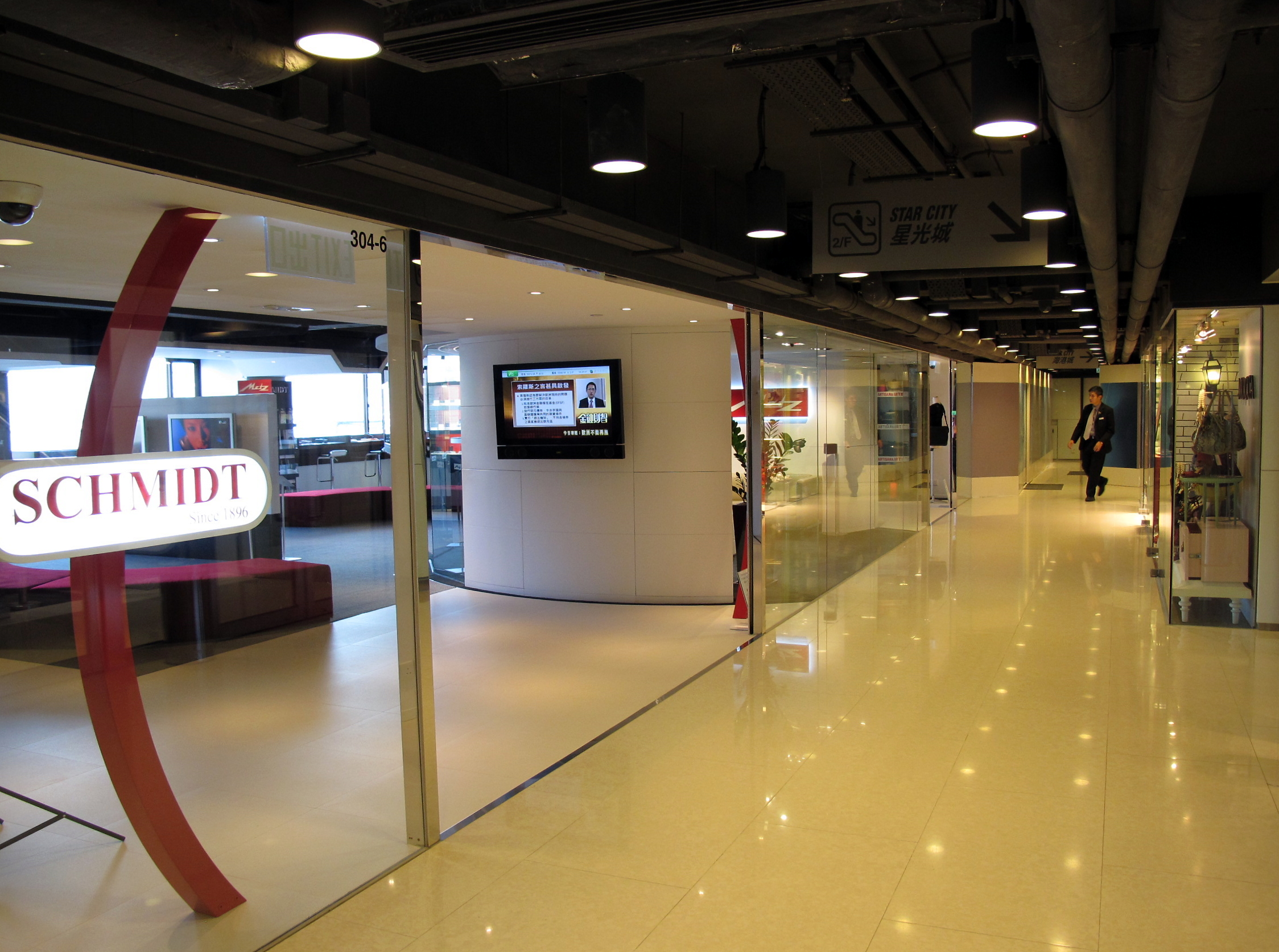 Star City View